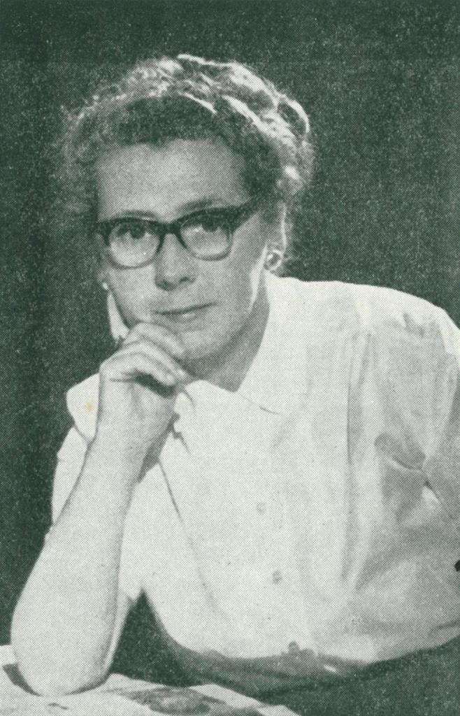 Kathleen Faragher, Manx poet, c. 1959.